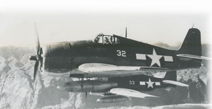 U.S. Navy Lt. Arthur Van Haren, Jr. with his Grumman F6F Hellcat in flight (No. 32) with Fighting Squadron 2 "Rippers", circa 1944.